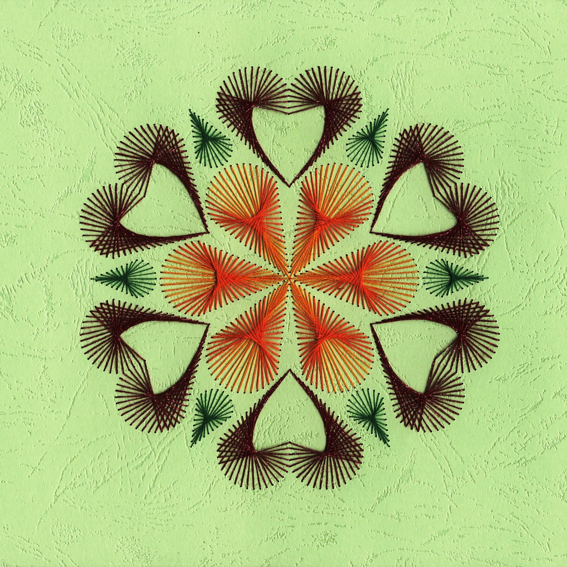 Stringart: geometrical pattern embroided on cardboardRomână: Grafică bordată: formă geometrică brodată pe carton